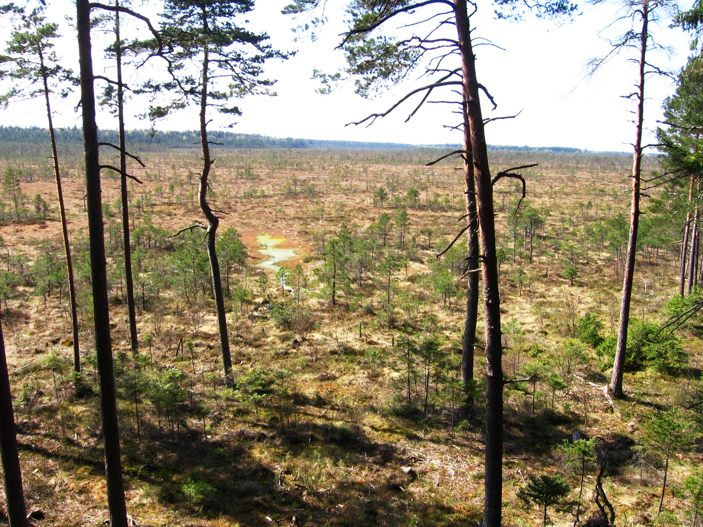 Aukstasis tyras telmological nature reserve, Rietavas municipality, Lithuania